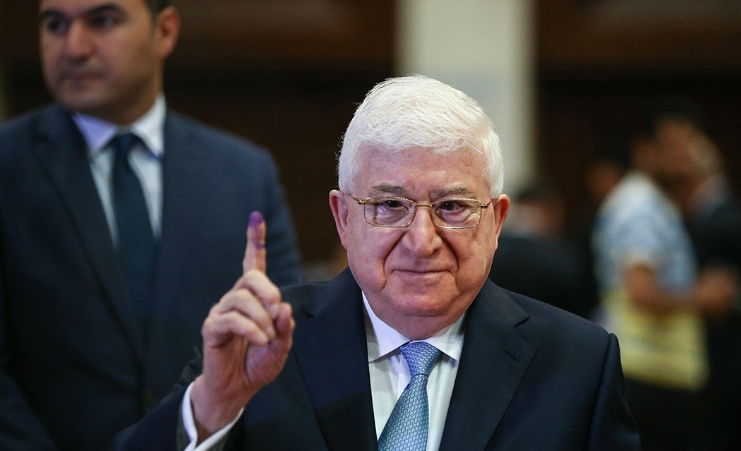 Iraqi parliamentary election, 12 May 2018 - Governmental Center for Elections in the Green Zone, Baghdad. main album